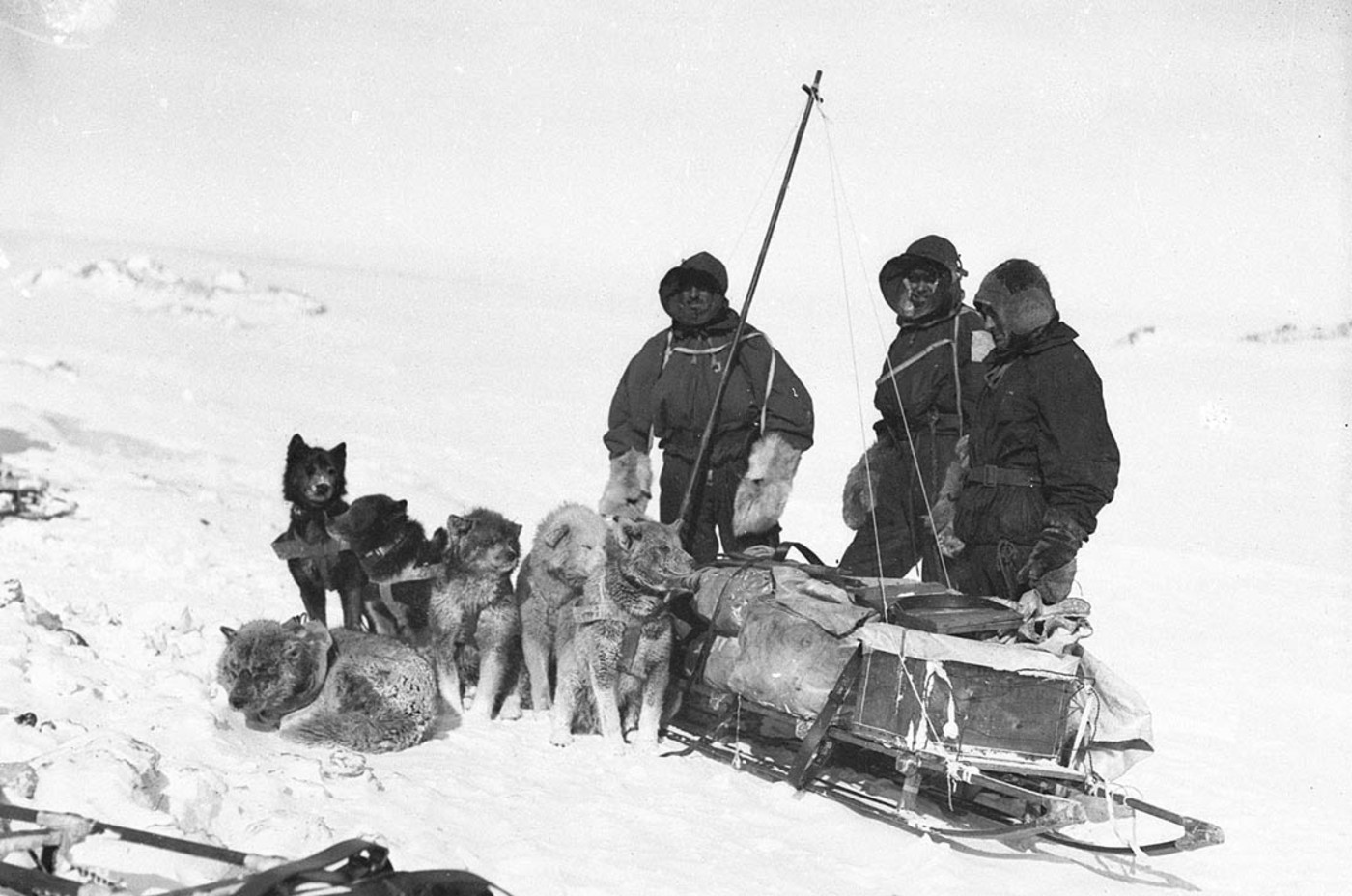 Xavier Mertz, Belgrave Edward Sutton Ninnis and Herbert Murphy, en route to the Aladdin's Cave depot with dogs during the Australasian Antarctic Expedition.